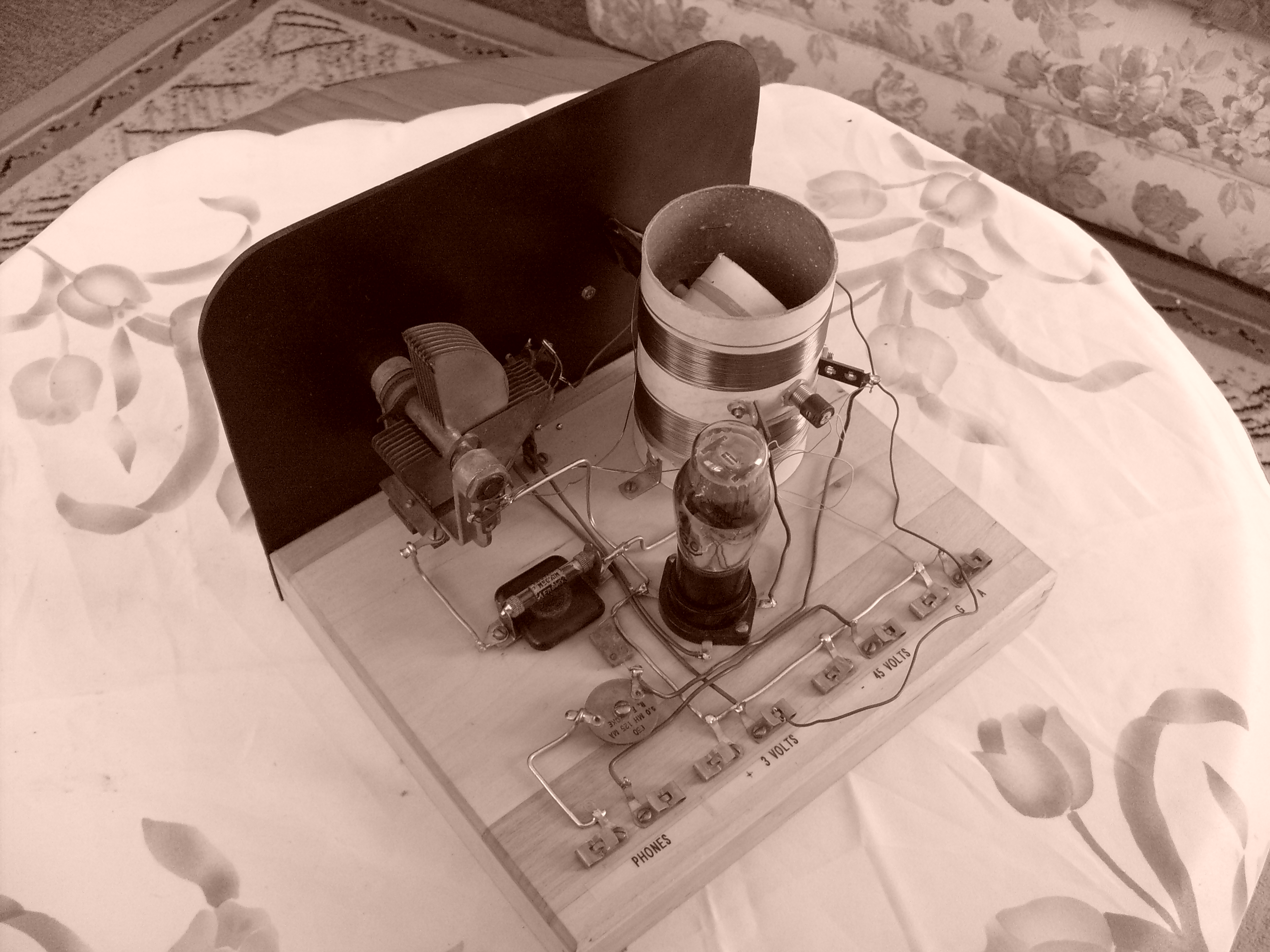 Homemade single tube Armstrong regenerative shortwave radio receiver using construction apparently dating from 1930s-1940s. The regenerative receiver design was abandoned by commercial radio manufacturers in the 1920s due to its tendency to radiate interference, but due to its simplicity and low cost continued to be built by radio amateurs for shortwave listening until World War 2. In the Armstrong circuit, the feedback is provided by a "tickler" coil in the plate circuit of the vacuum tube which is coupled to the tuning coil in the grid circuit. The tickler coil is visible as a variometer winding within the vertical tuning coil, mounted on a shaft which could be rotated by a knob on the front panel to adjust the feedback.